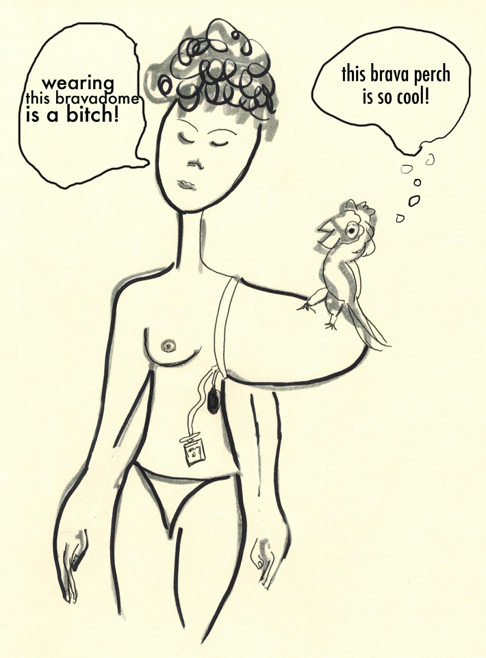 Illustration by Matuschka featuring the Bravadom device and one of her pets